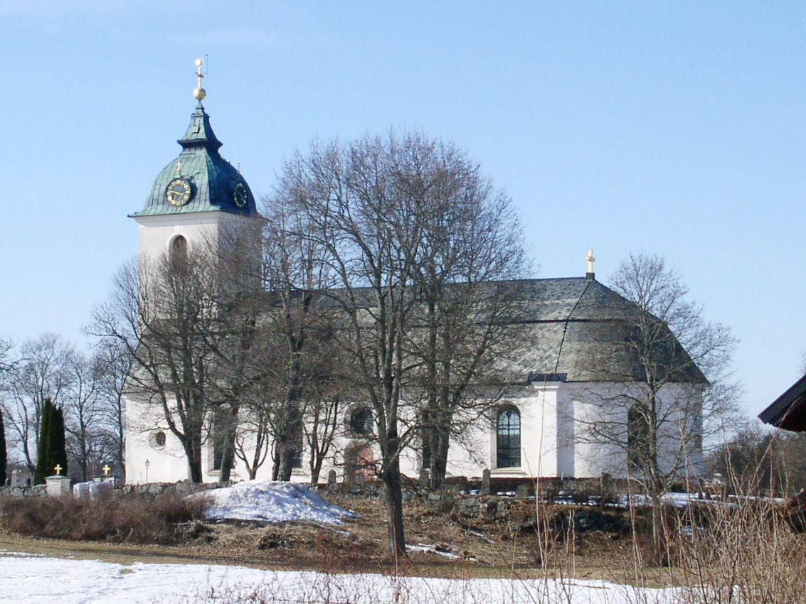 Svennevads kyrka, Hallsbergs municipality, Sweden